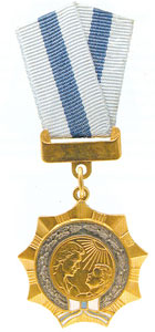 Order Maternity, Belarus